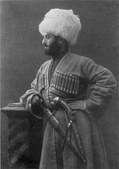 The Circassians, according to their tradition of Semitic origin, is located on the northern slope of the Caucasus; through the eviction of about half a million in 1864 their number one-quarter is melted together. In the early Middle Ages Christians, they came over later to Islam; they apply to the ritterlichste under the Caucasian hill tribes for their costumes and customs, they have been decisive for the large part.